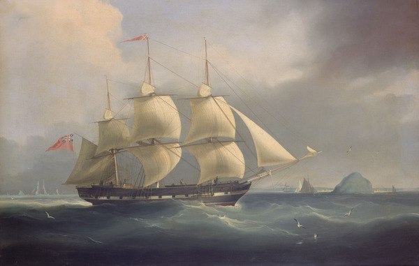 The East Indiaman Thomas Coutts.